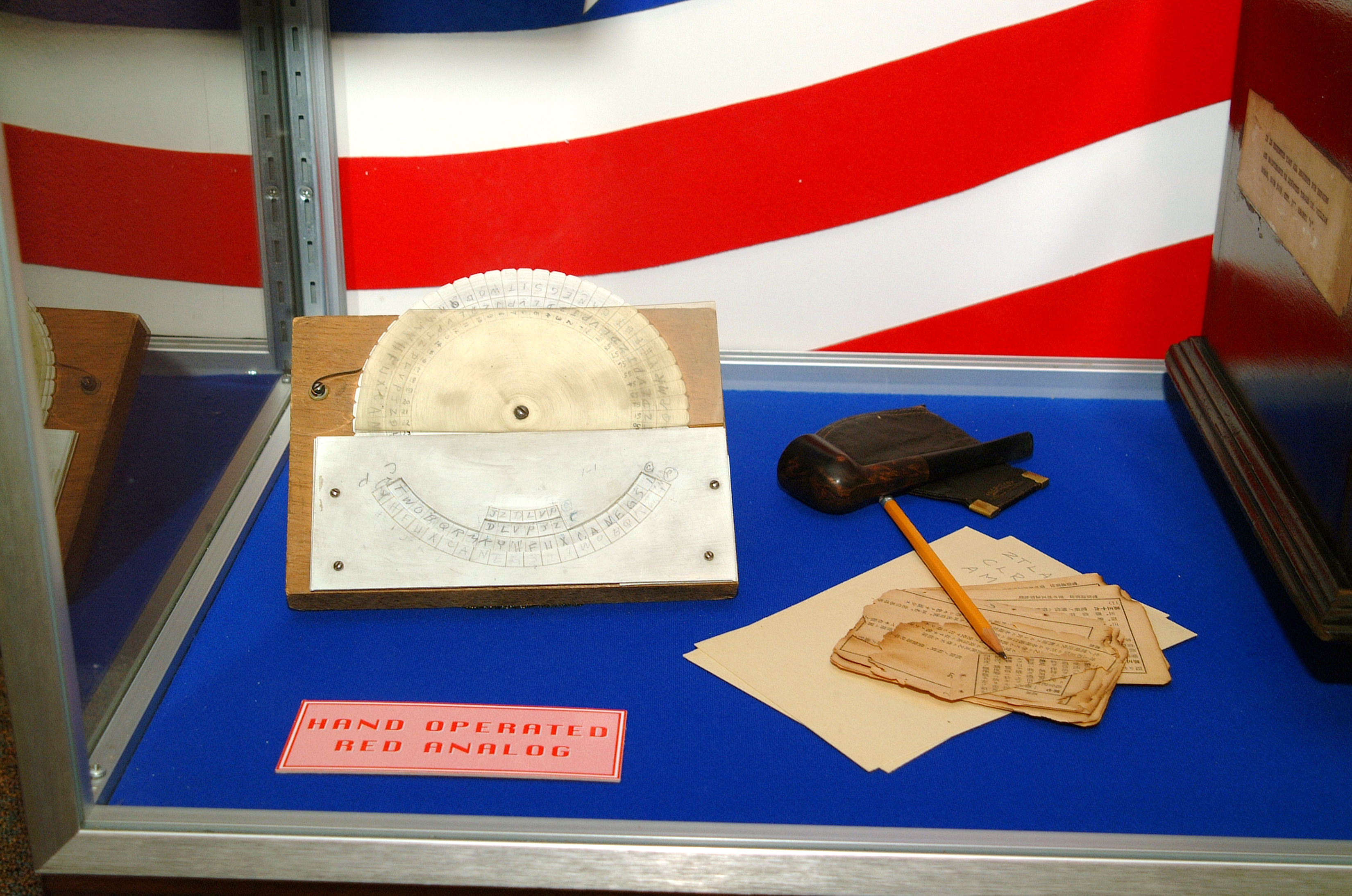 National Security Agency - Public Info - Photo Gallery - Cryptographic Machines - Hand Operated Red Analog